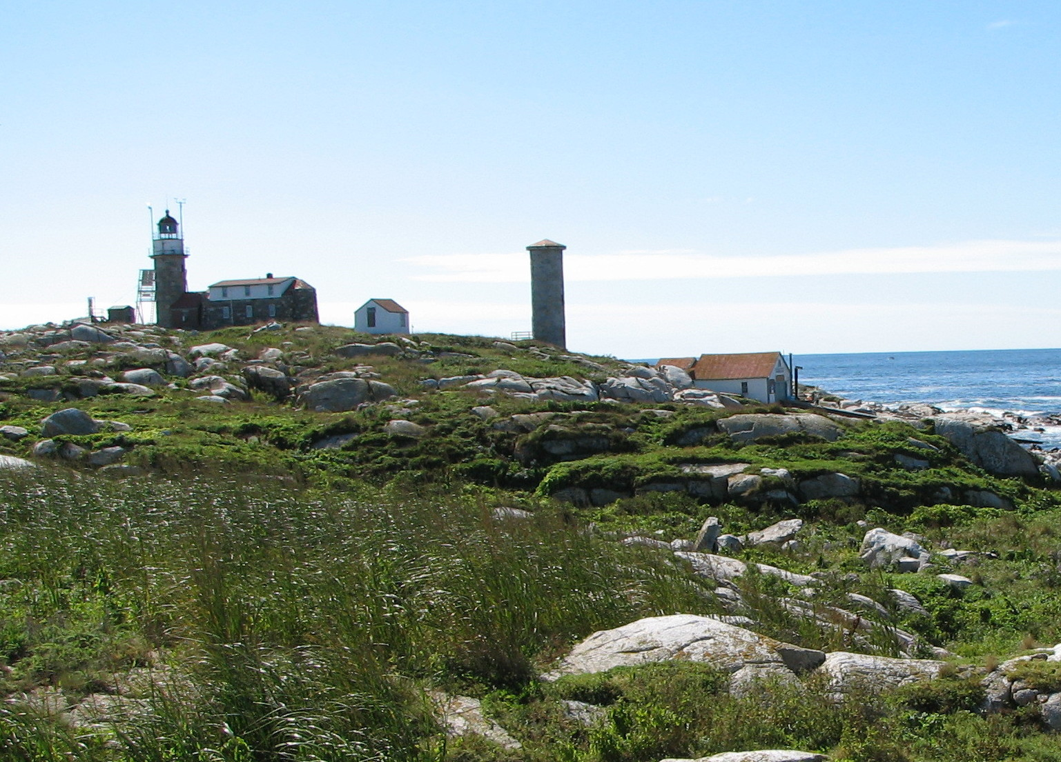 Matinicus Rock at Maine Coastal Island National Wildlife Refuge credit: USFWS